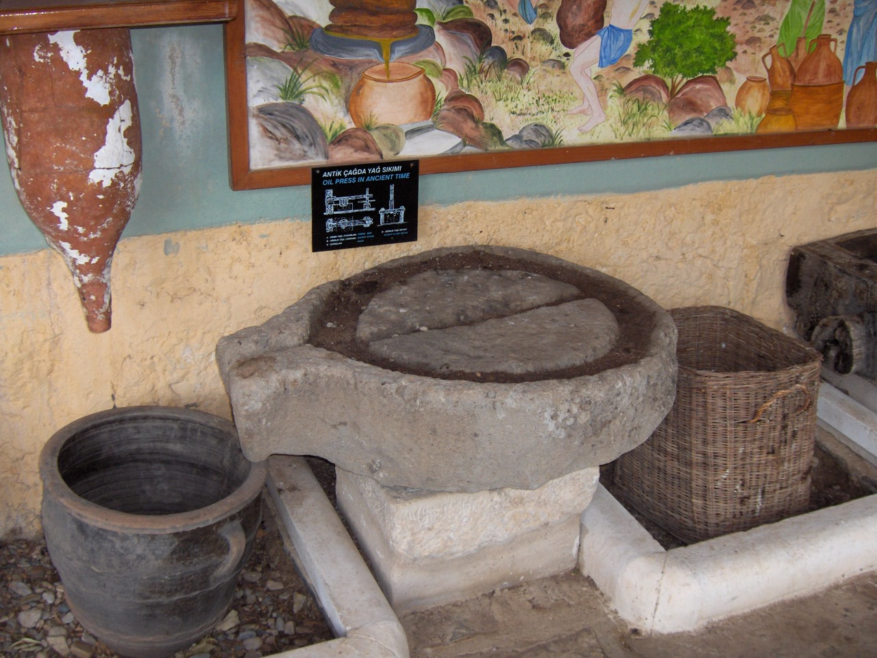 Ancient oil press, St. Peter's castle; Bodrum, Turkey